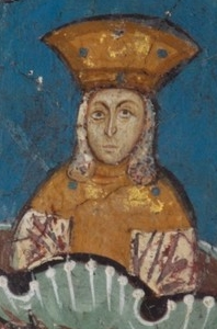 Detail of fresco Loza Nemanjića,Brnjača (sister of Dragutin and Milutin),Visoki Dečani,Serbia.